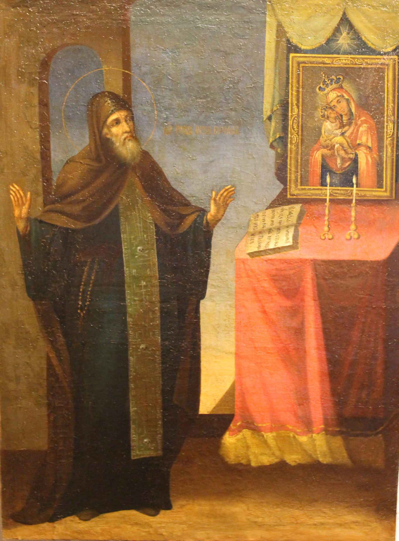 Hiob of Pochaiv (1551-1651), the abbot of Pochaivski monastery. Oil, canvas, the end of the 19th c. From the collection the Museum of Uklrainian home icons, Radomysl Castle